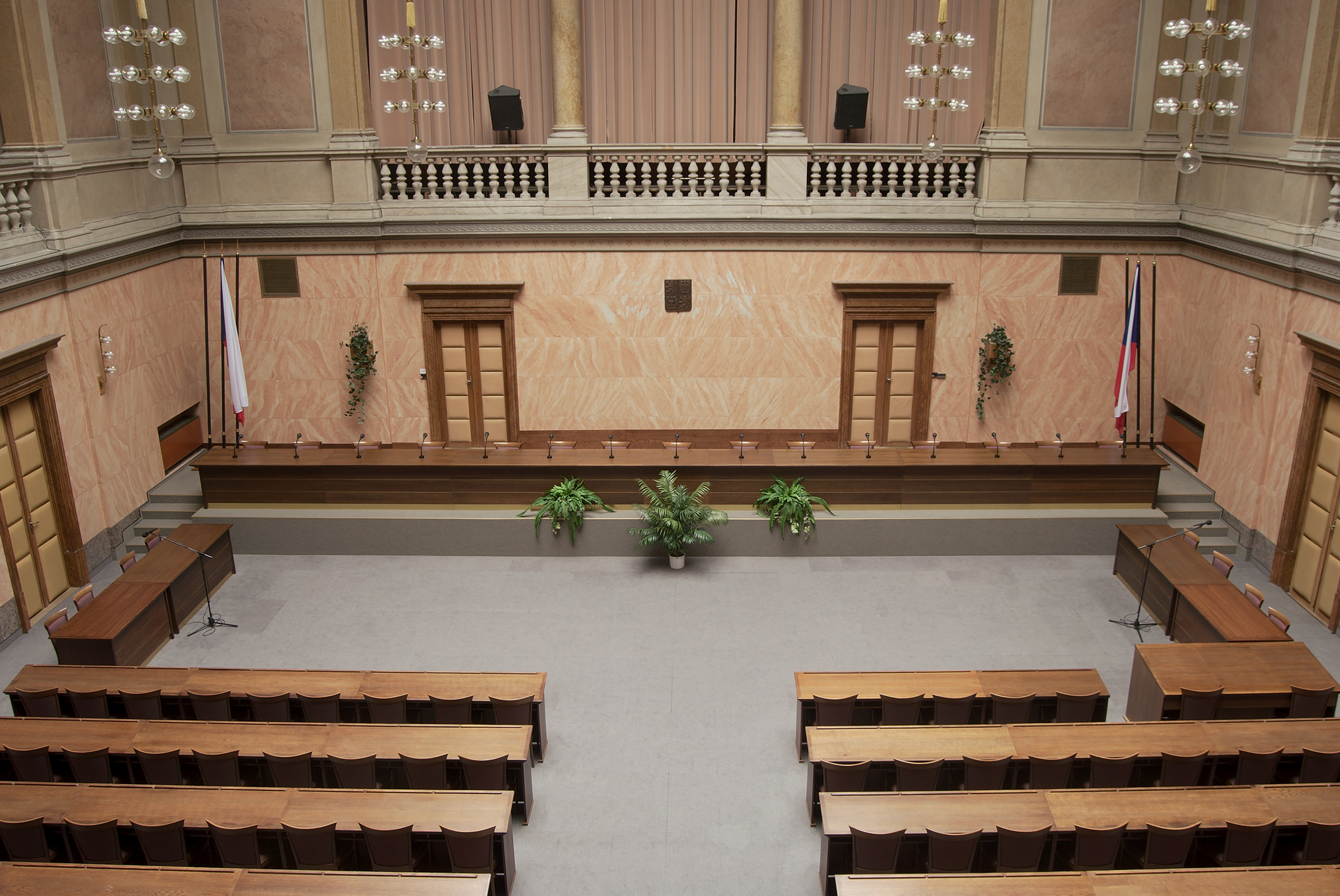 Moravian Provincial Diet - Assembly hall